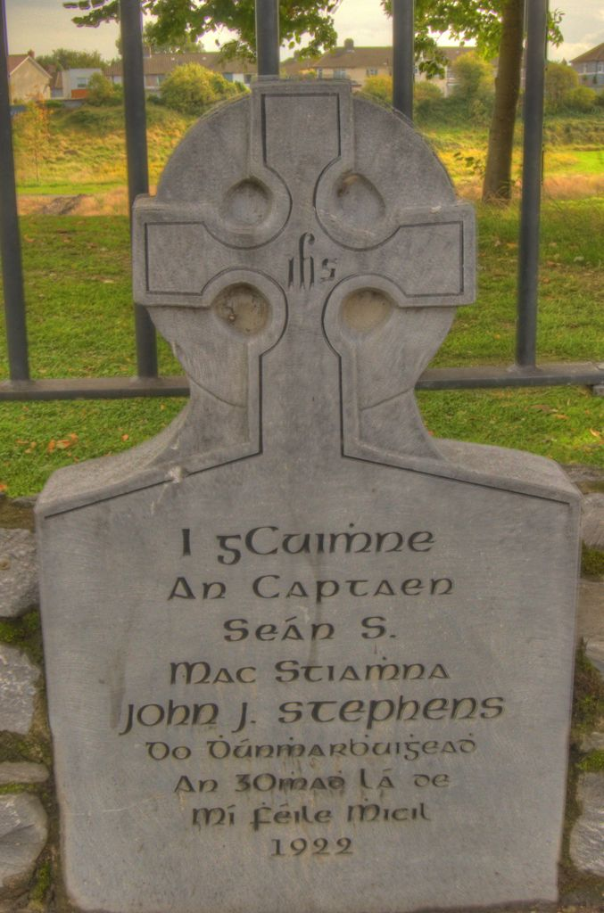 This plaque marks the spot on the Naas Road at Blackhorse Bridge, Inchicore, where the body of J.J.Stephens was dumped on the 3rd September 1922